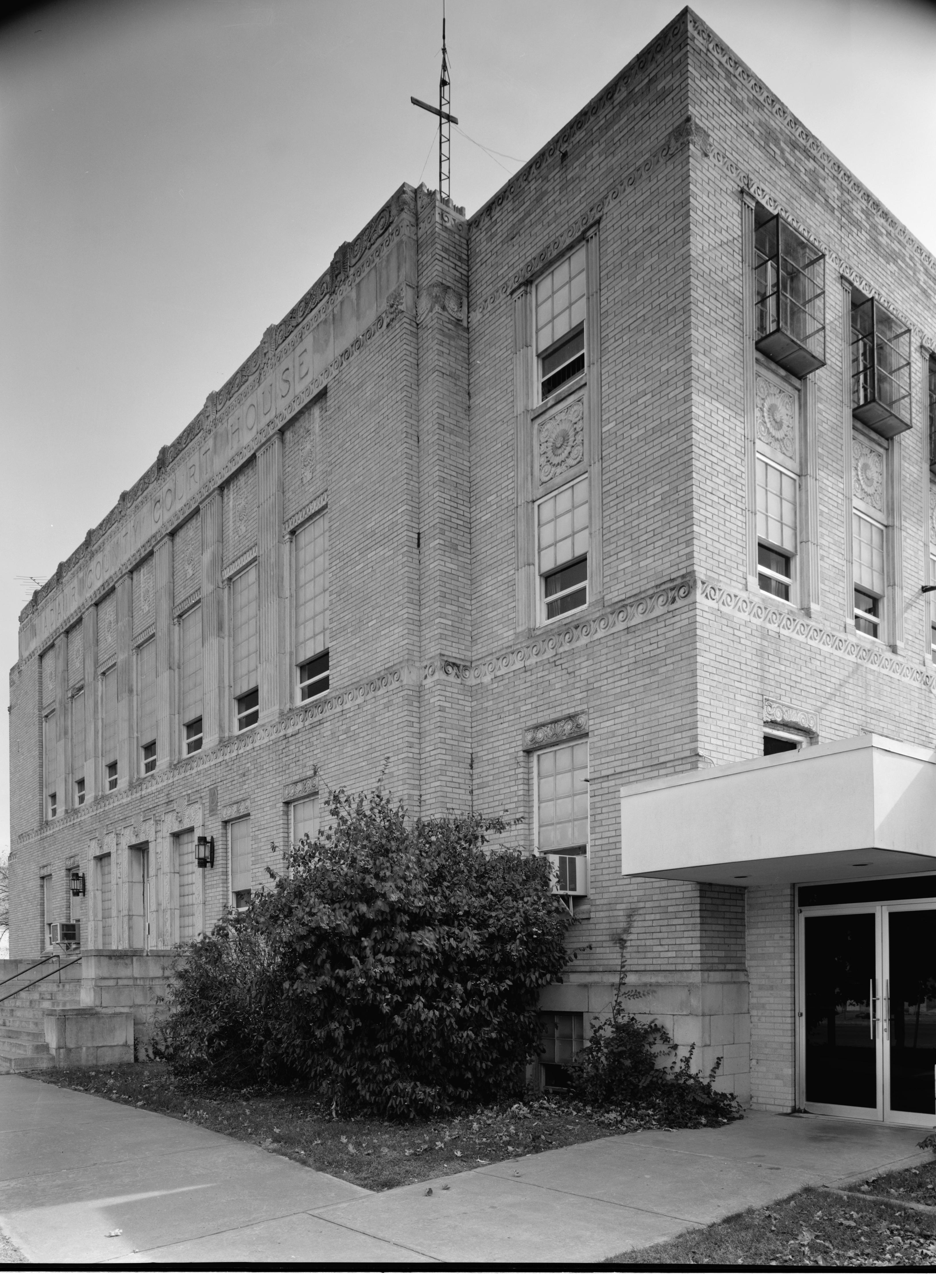 Front of the Adair County Courthouse, located on Courthouse Square in Stilwell, Oklahoma, United States. Built in 1929, it is listed on the National Register of Historic Places.